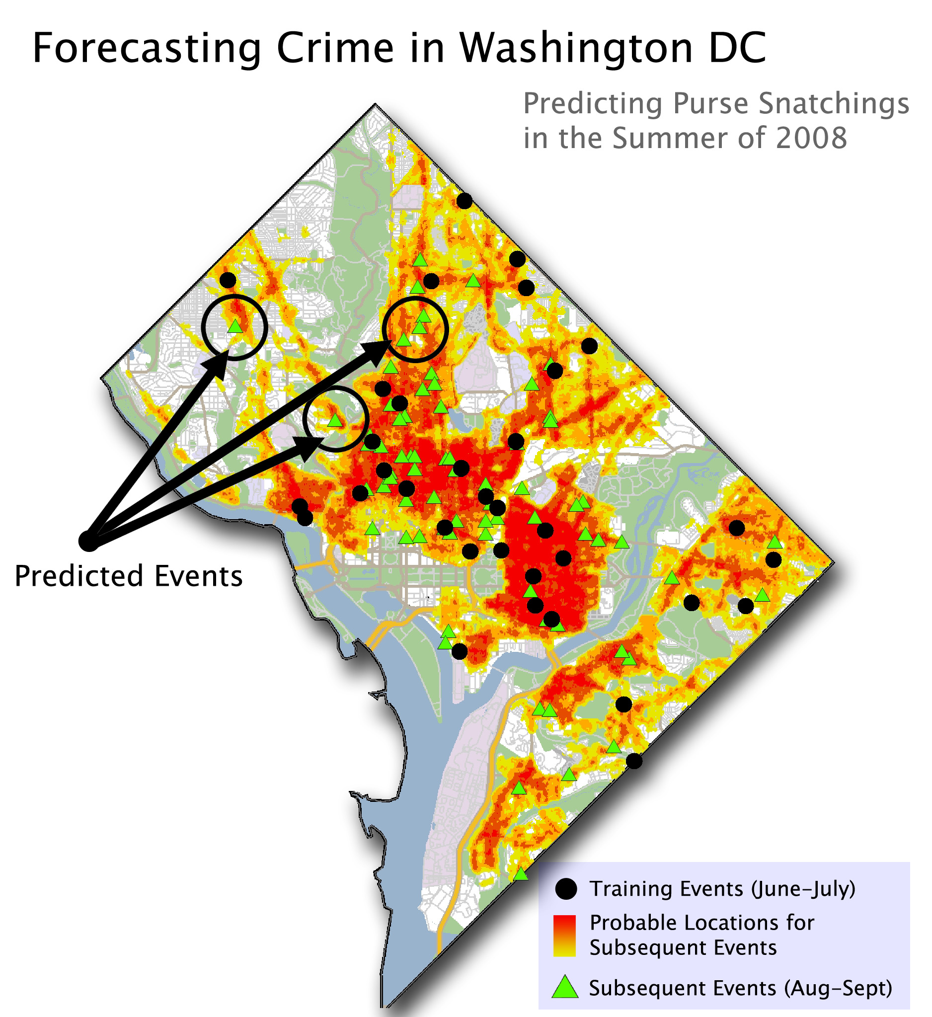 Crime Forecast of Washington DC. This assessment was created using Signature Analyst